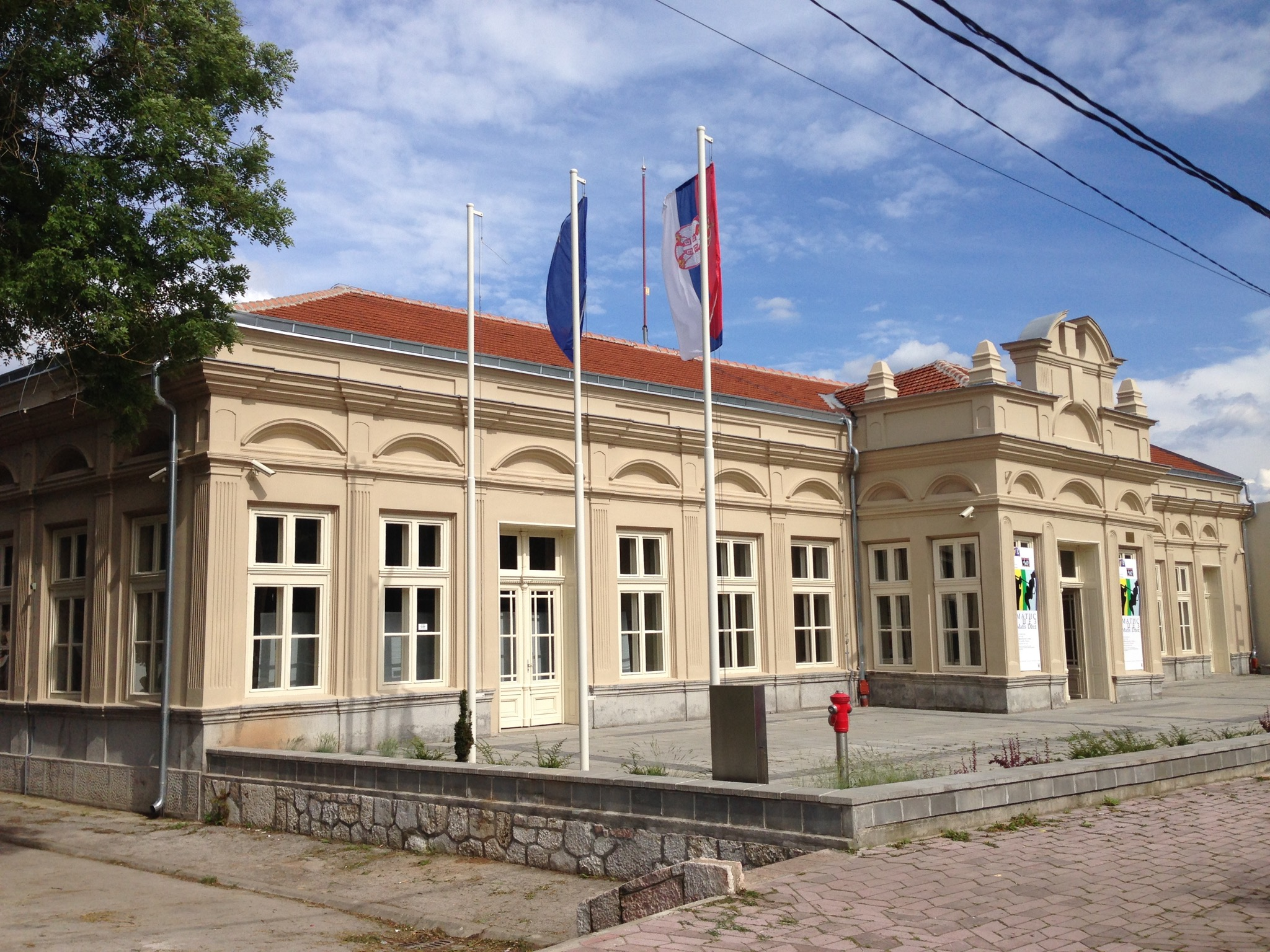 Officers' Club Exibition Space in Niš, Serbia.